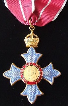 insignia of a Commander of the Order of the British Empire (with military ribbon)